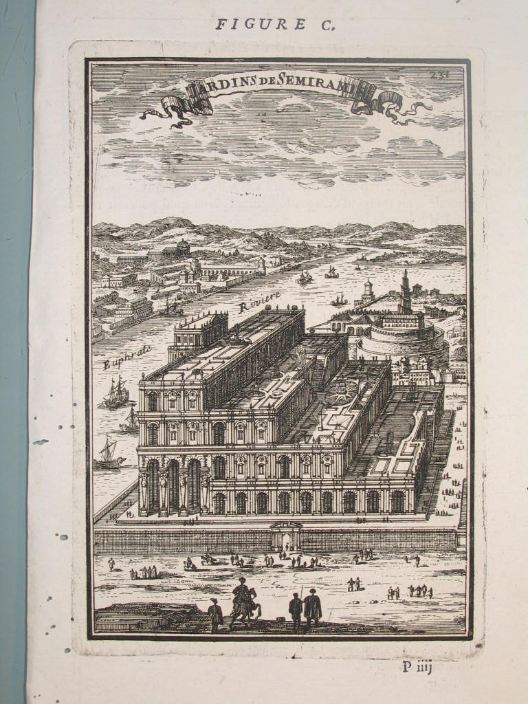 View of the gardens of Semiramis, Description de L'Universe (Alain Manesson Mallet, 1683)